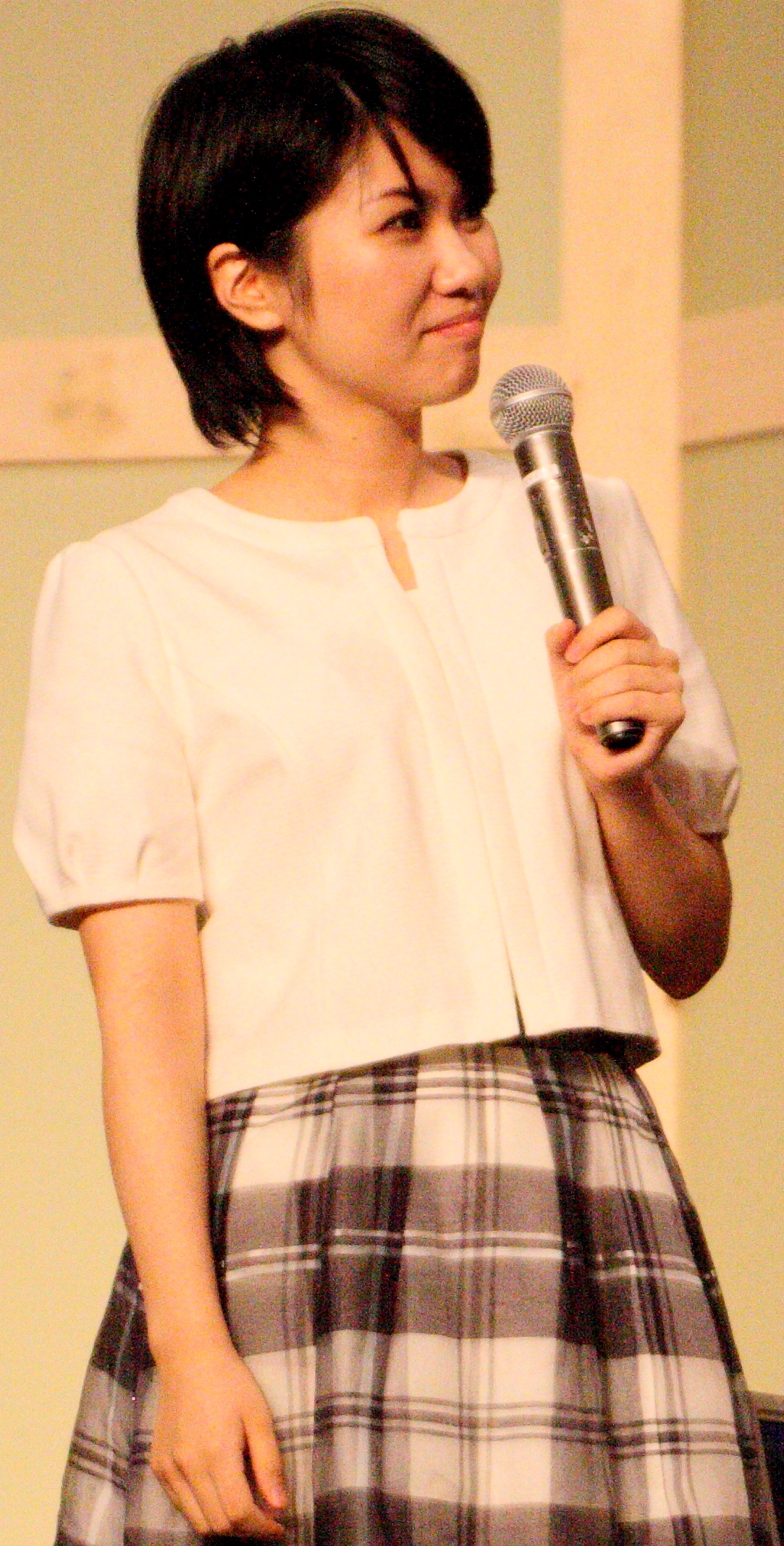 聞き手を担当された鈴木女流二段。Professional shogi player, Kanna Suzuki.